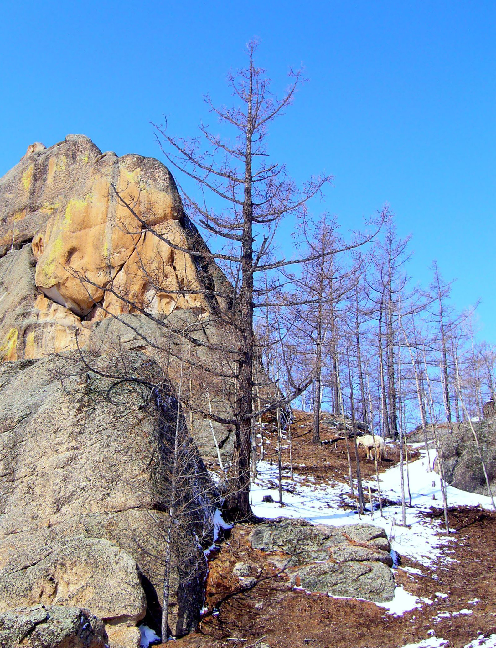 Larix sibirica trees in natural habitat, Gorkhi-Terelj National Park, Mongolia.